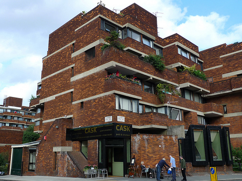 A newly refurbished estate pub, now doing excellent beers and decent food too. (Photo of menu, Aug 2009.) (Photos of sharing platter and lasagne.) Address: 6 Charlwood Street. Former Name(s): The Pimlico Tram. Links: Randomness Guide to London Fancyapint Beer in the Evening Beer in the Evening (Pimlico Tram) Qype Freaky Trigger